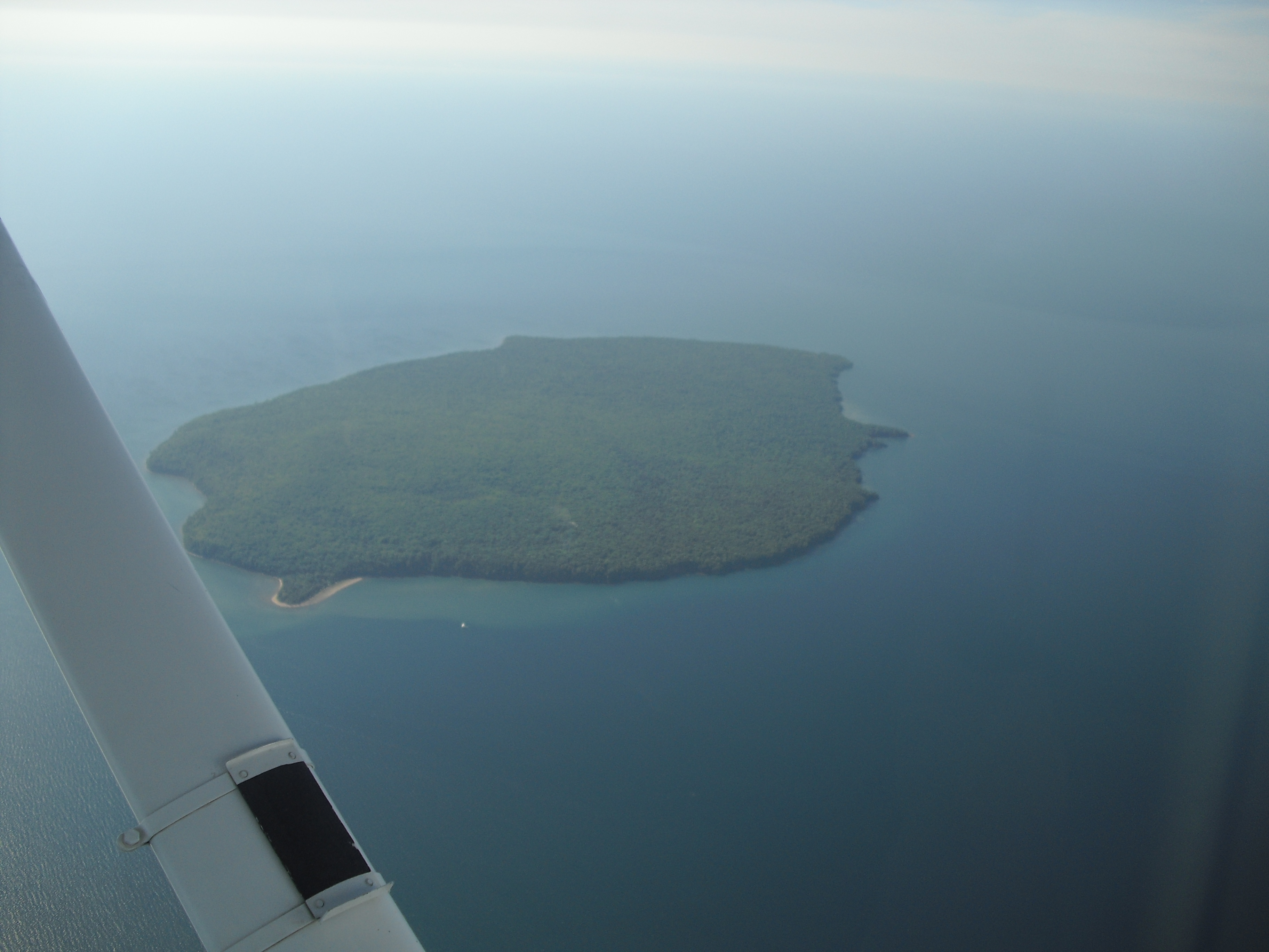 Aerial view of Bear Island looking north. The point in the foreground with sandy beaches visible is the island's South Point.